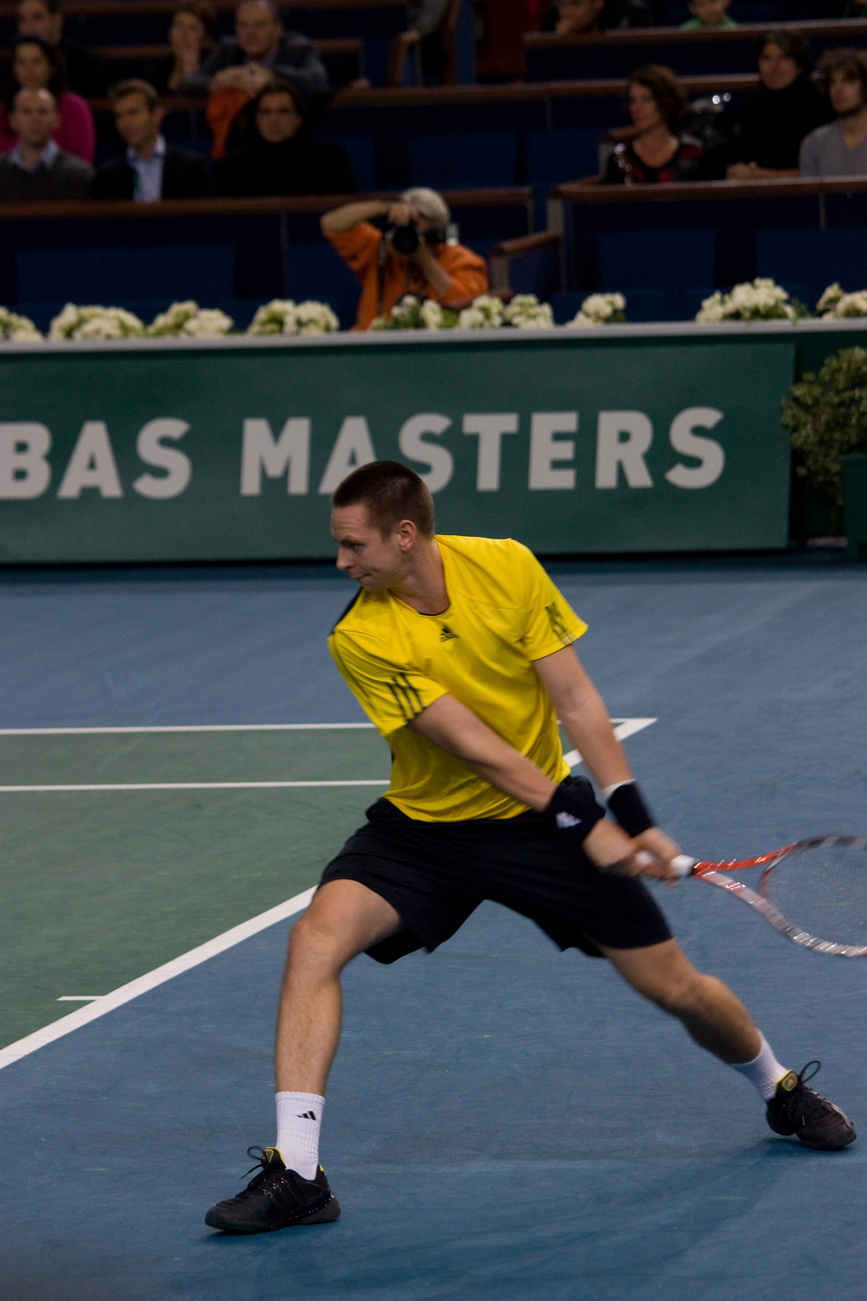 Robin Soderling against Roger Federer at the 2008 BNP Paribas Masters